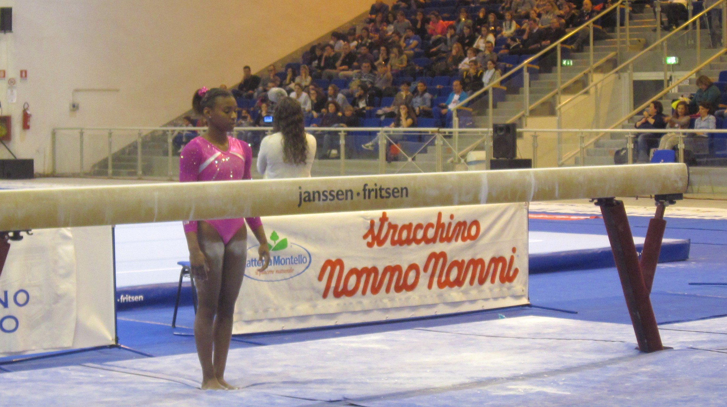 Nia Dennis at Jesolo Trophy 2014